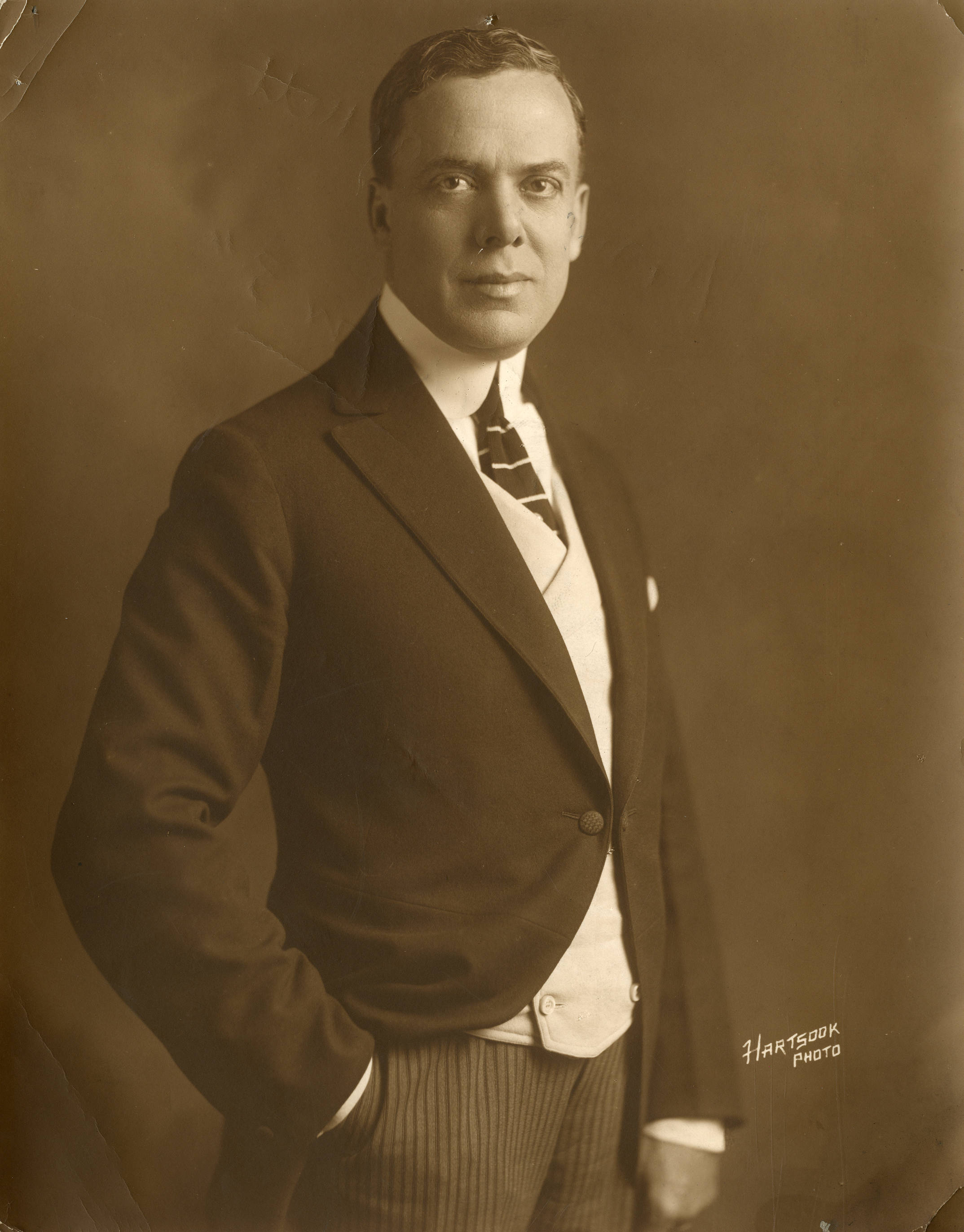 Stage actor Norman Hackett. Subjects: actors